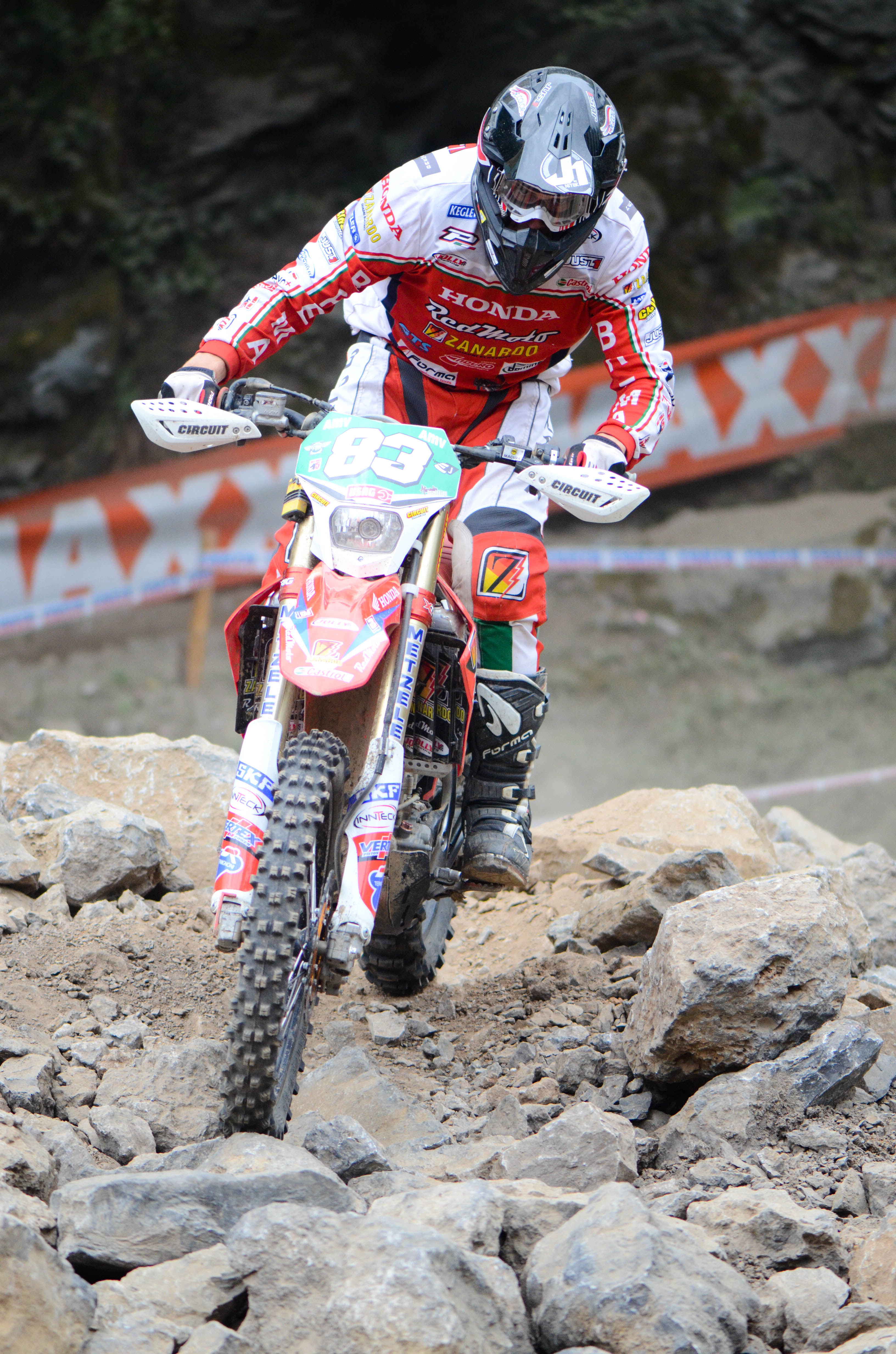 Alessandro Battig during the 2015 GP FunnelWeb Filter of Belgium